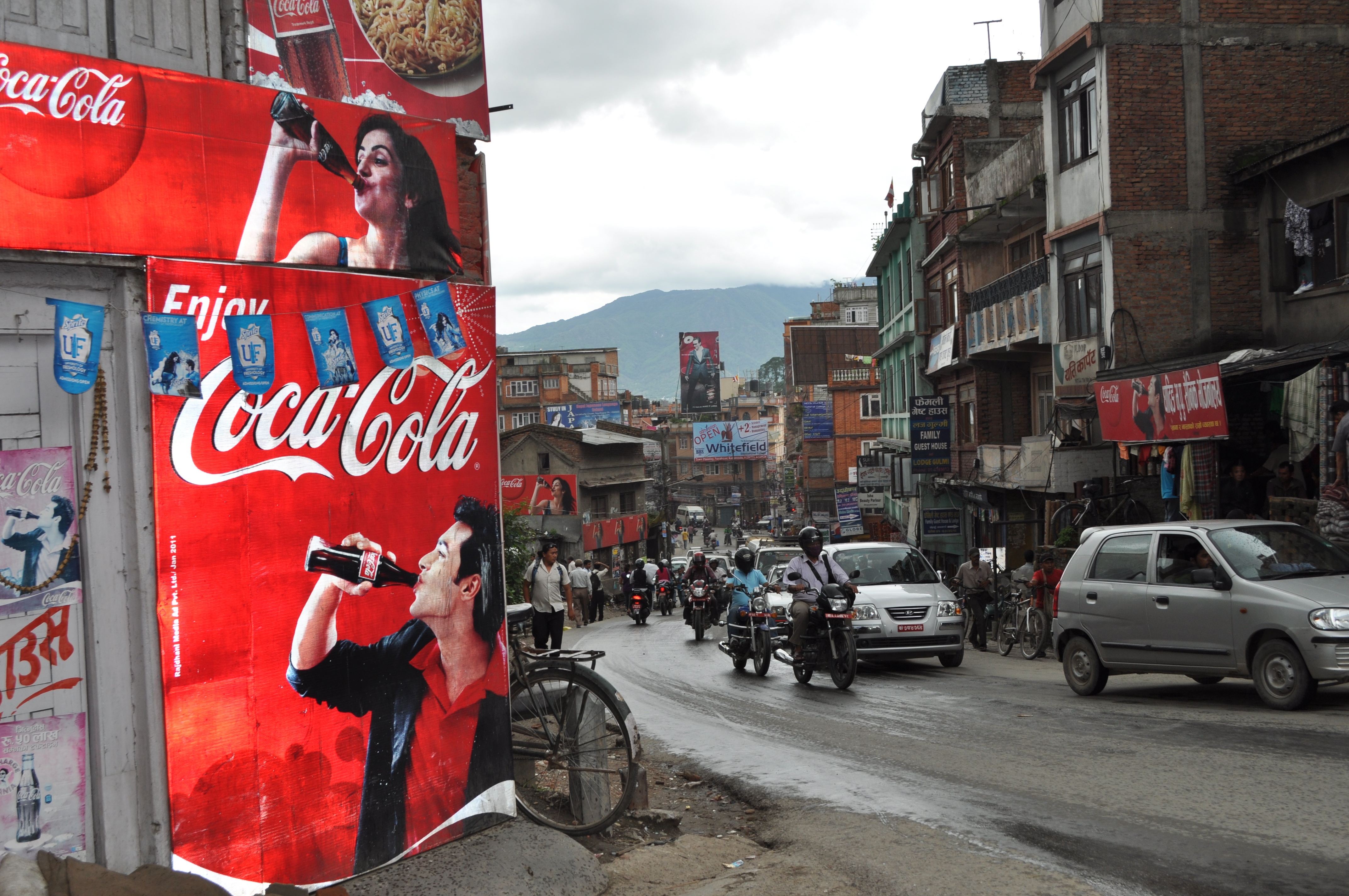 Streetwiew from Katmandu, Nepal